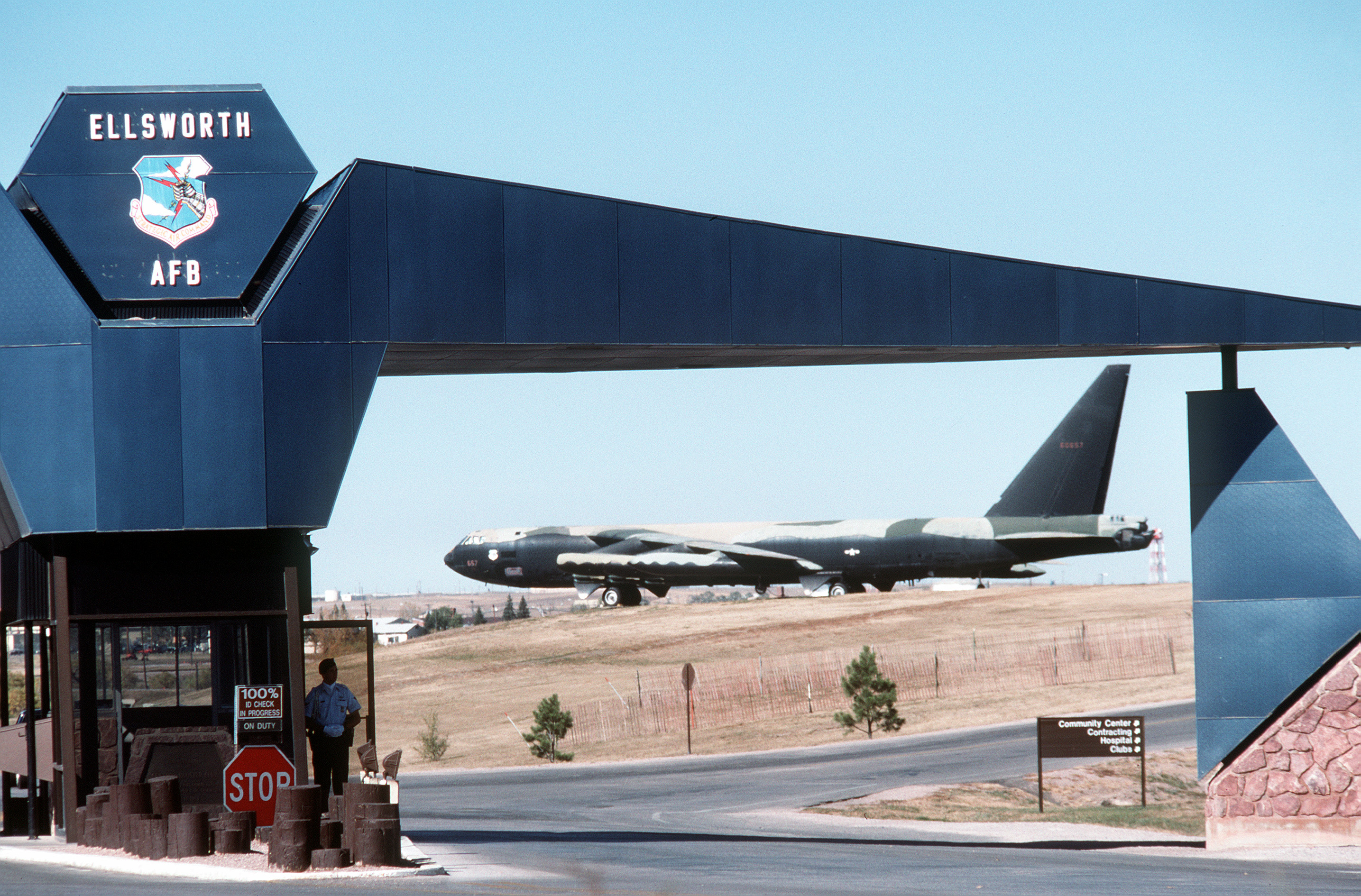 A B-52D Stratofortress bomber rests on static display just past the base's main gate. Location: ELLSWORTH AIR FORCE BASE, SOUTH DAKOTA (SD) UNITED STATES OF AMERICA (USA)